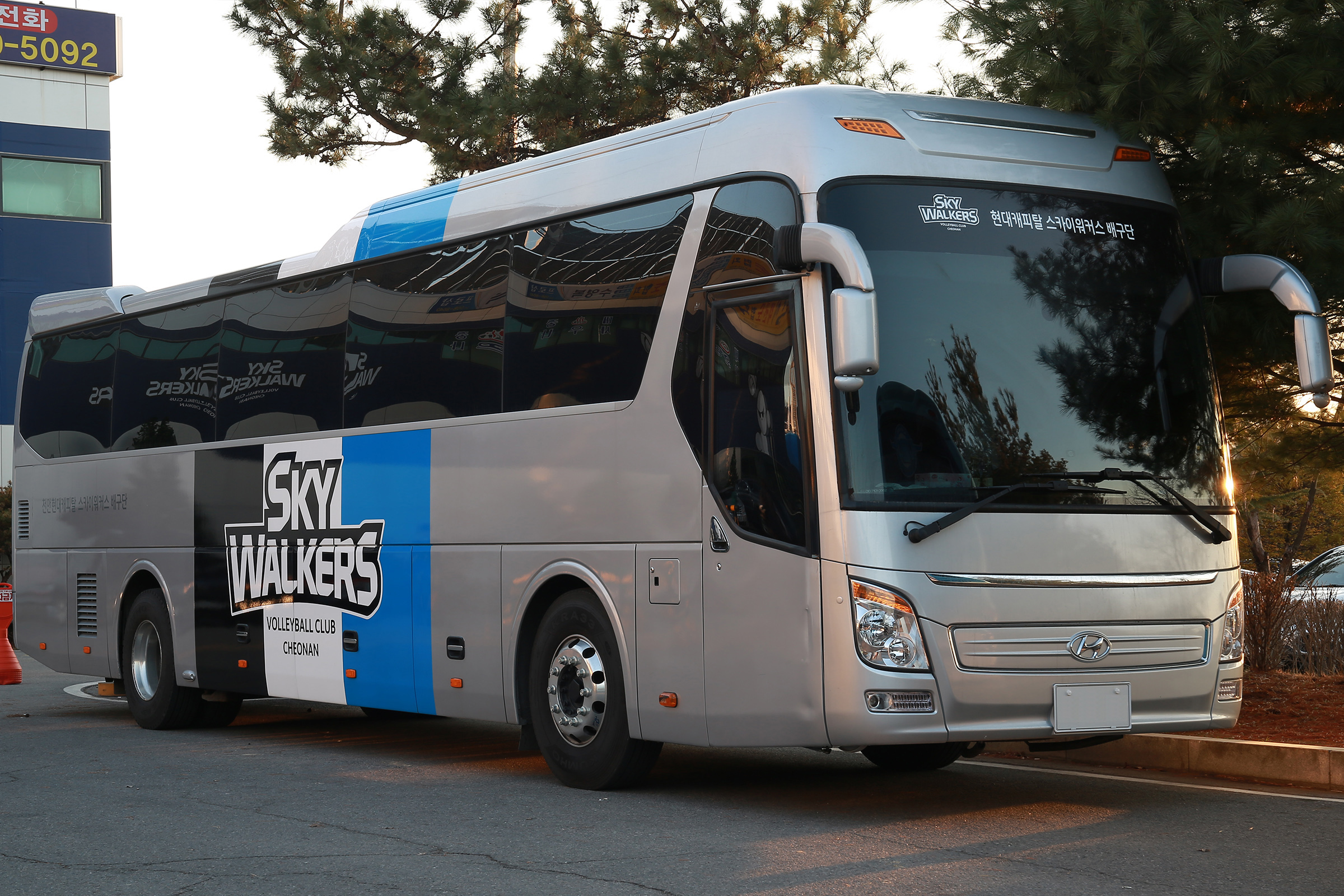 Universe of Hyundai Capital Skywalkers at Cheonan Sports Complex